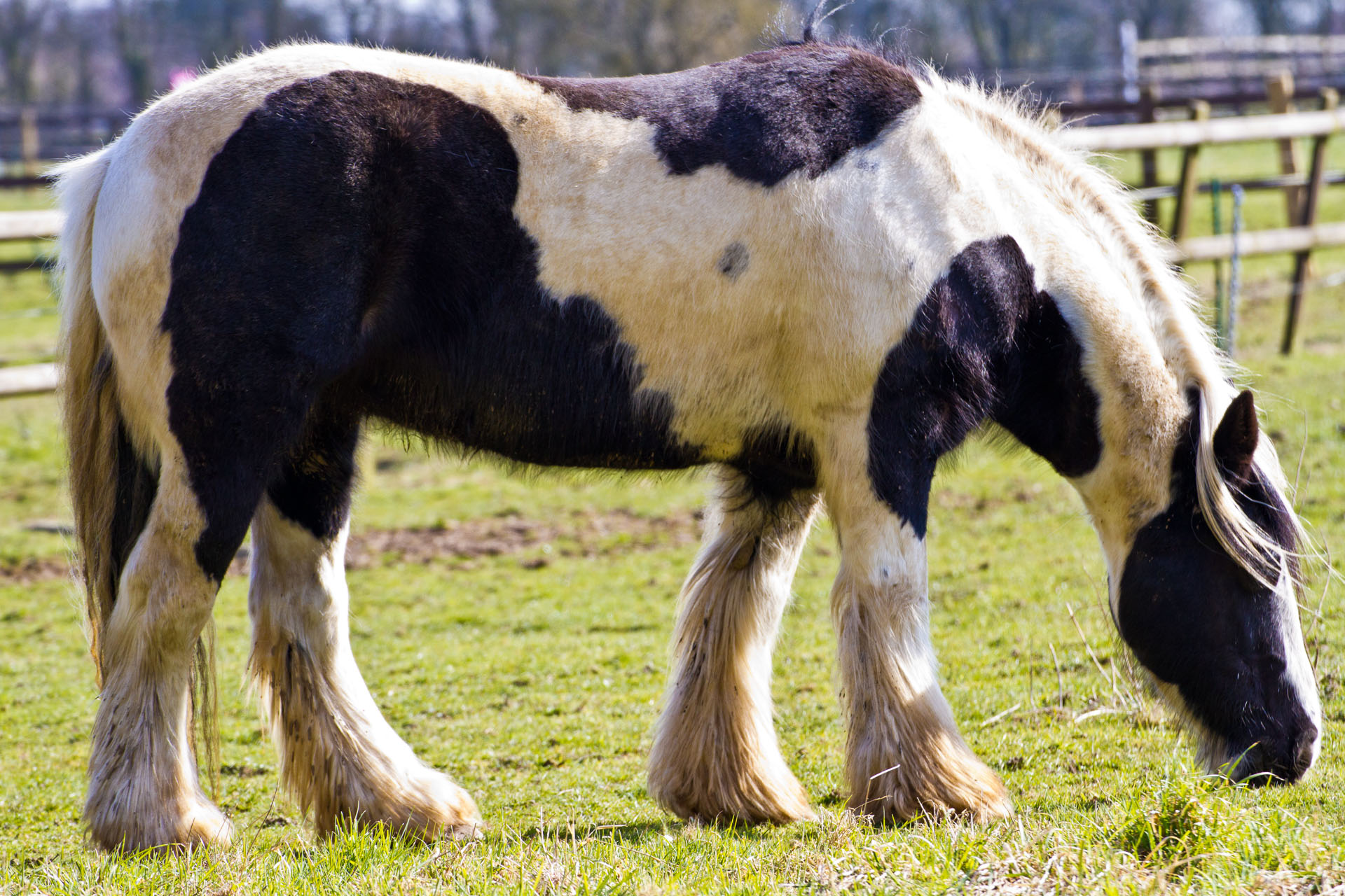 A large brown and white horse